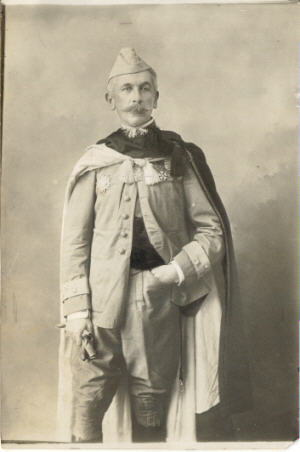 Louis Hubert Gonzalve Lyautey (1854-1934) was a French general, the first Resident-General in Morocco.